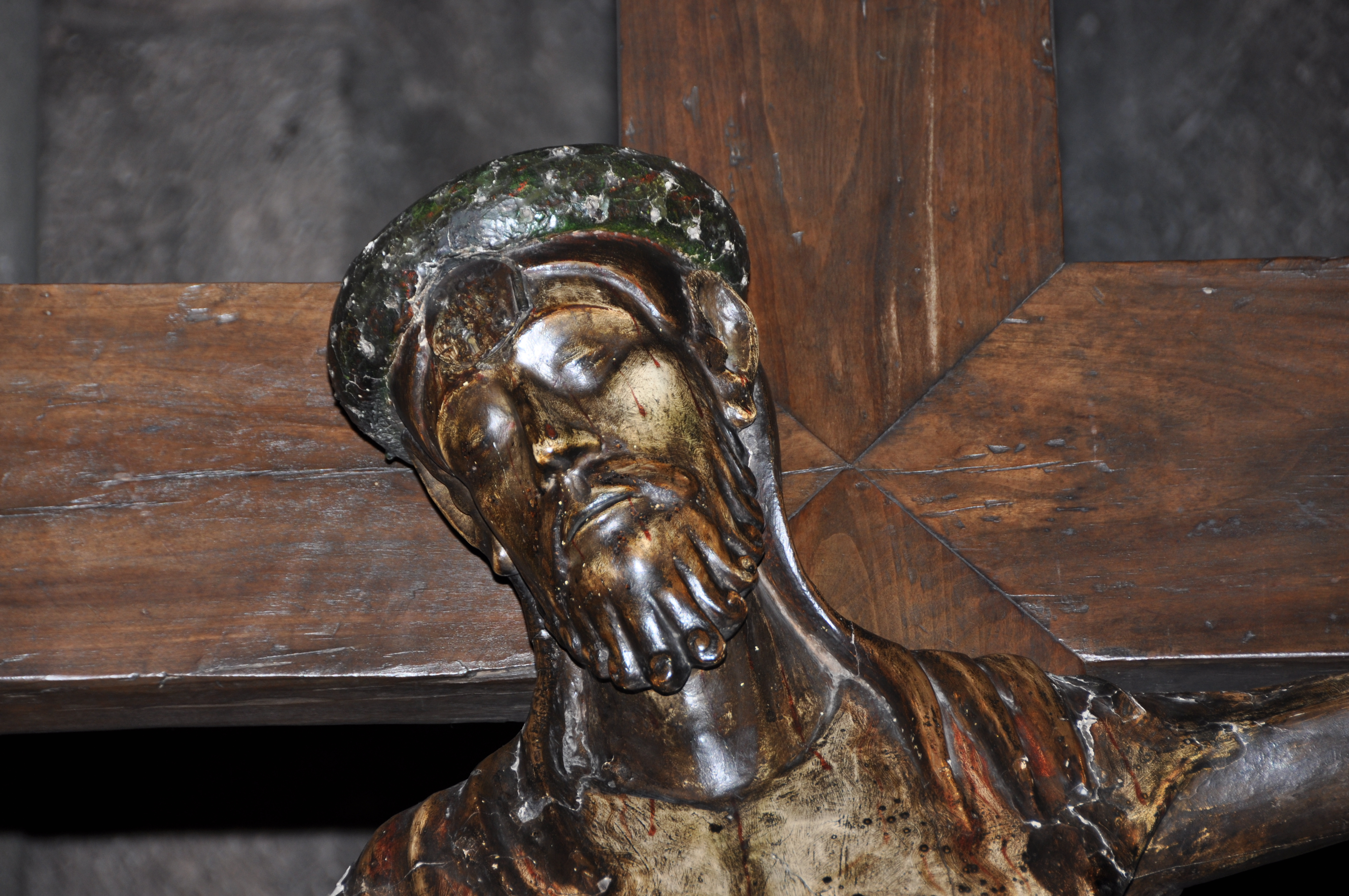 Sant Joan de les Abadesses. Monastery. Descent from the Cross.(1251) Head of Jesus Christ with the small door of a reliquary on his forehead